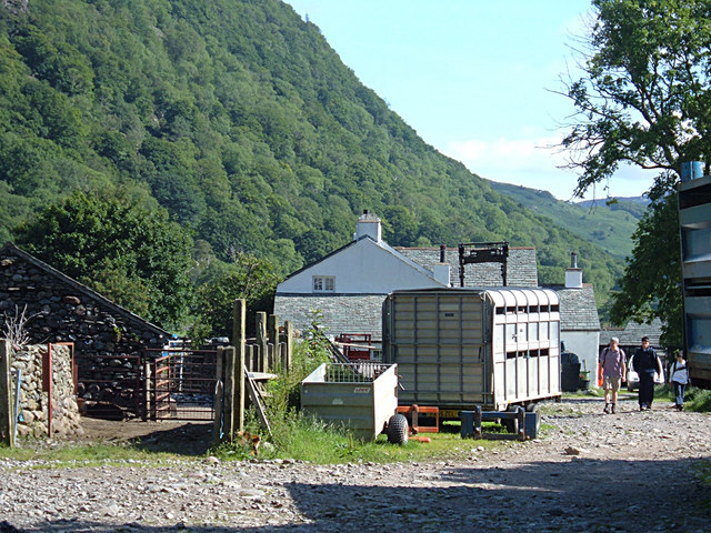 Seathwaite, Borrowdale Leaving the farm that marks the end of the surfaced road up the valley. Here a family group of walkers head south on the bridleway along Grains Gill towards Stockley Bridge and the high fells.